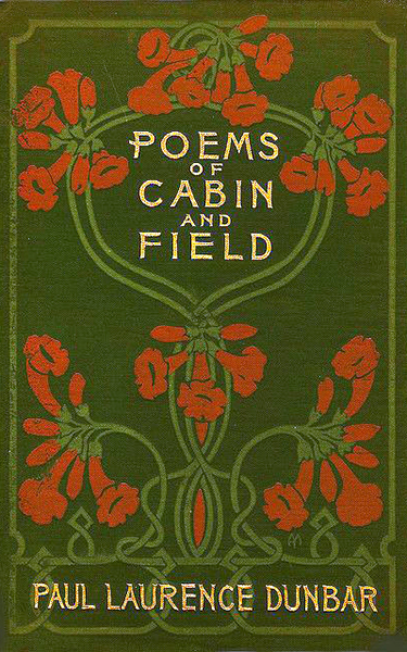 Cover design by Alice Cordelia Morse for Paul Laurence Dunbar's Poems of Cabin and Field, 1900.